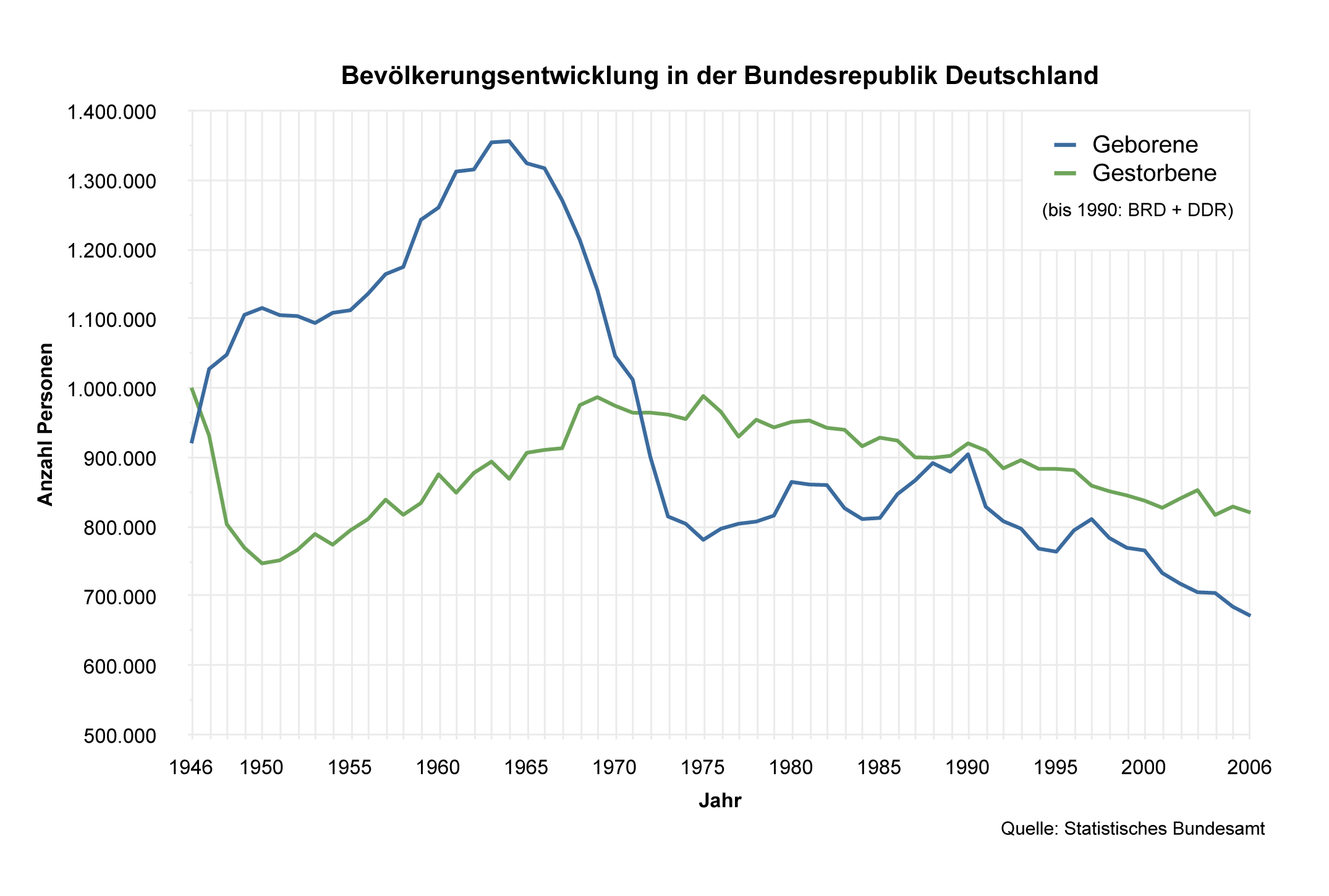 Birth and death (absolute) rates in Germany 1946–2006. Quantities were not divided by population numbers, the unit of Y is person/year, not time-1 as usually.